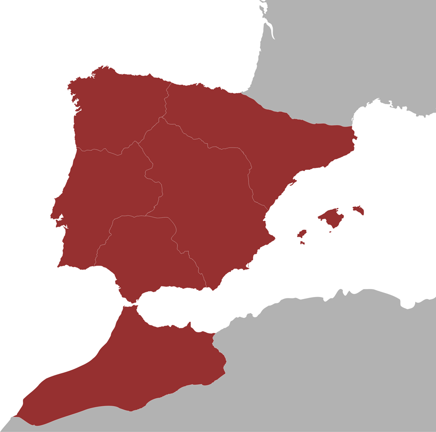 This map shows the Diocesis Hispania´s territory in the Roman Empire.